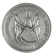 SWEERTS